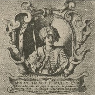 Mohammed_esh_Sheikh_es_Seghir_by_Adriaen_Matham_1640.